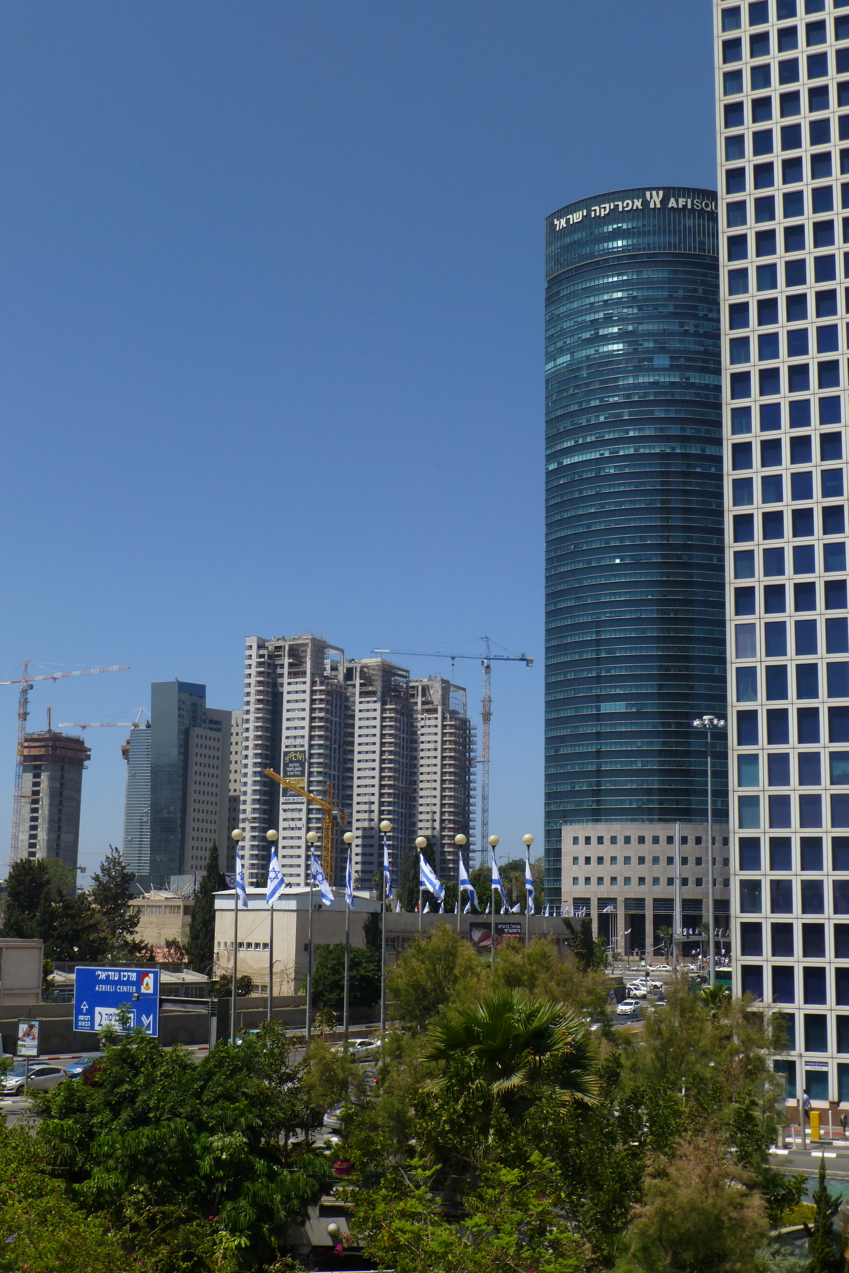 Migdal HaKiriya